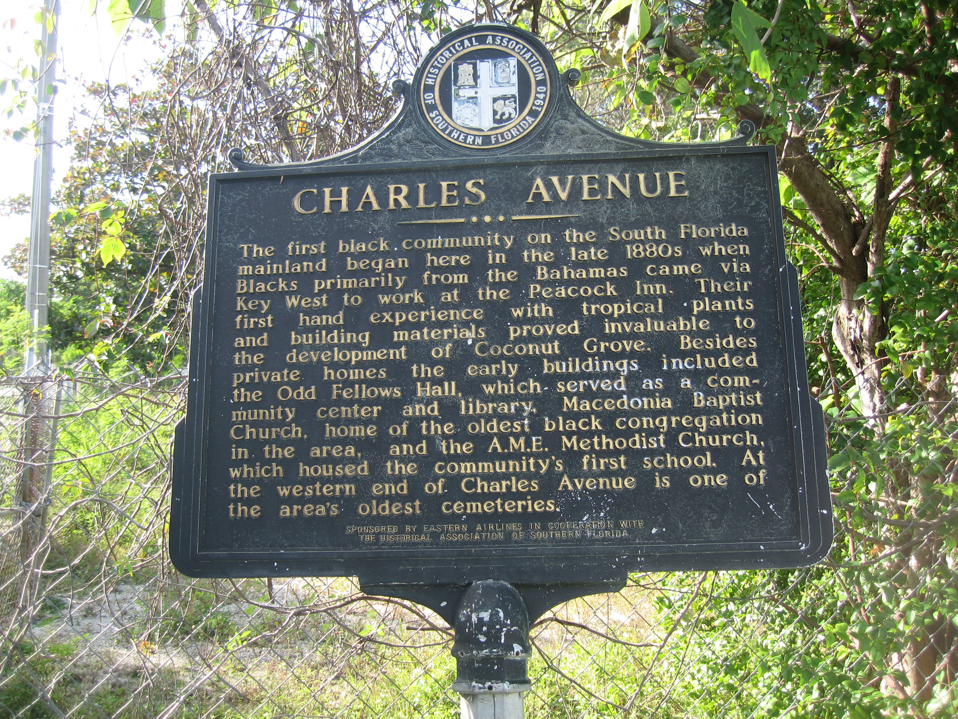 Charles Avenue historical marker on Charles Avenue near intersection with Main Highway in Coconut Grove, Florida.